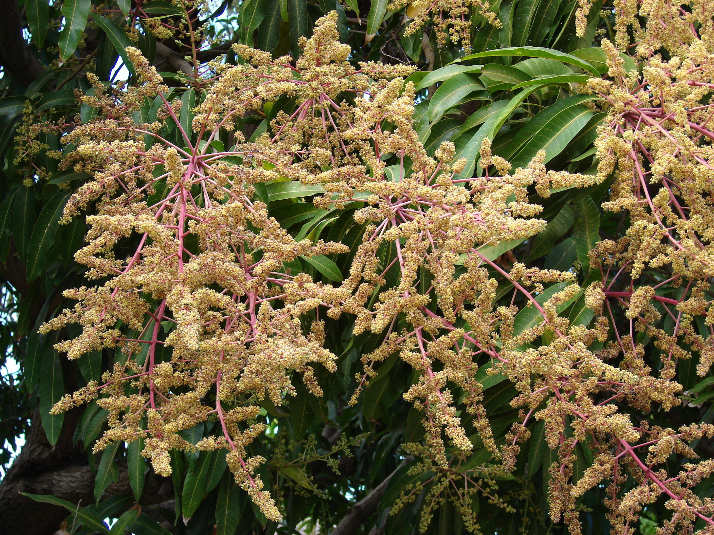 Mangifera indica (flowers). Location: Maui, Kihei